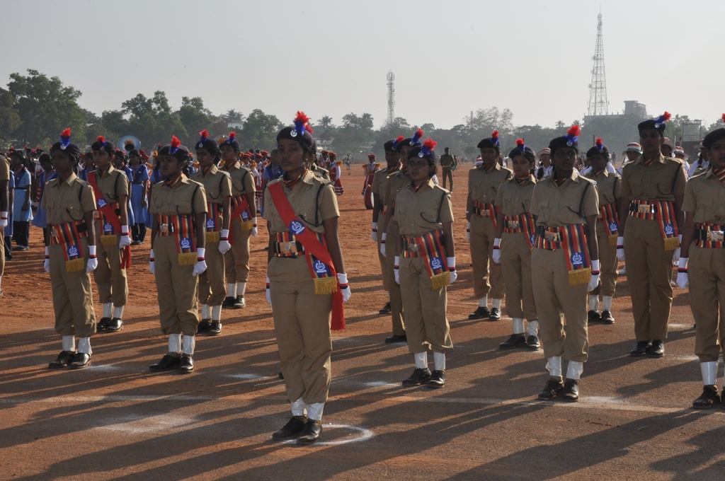 Student police cadet parade